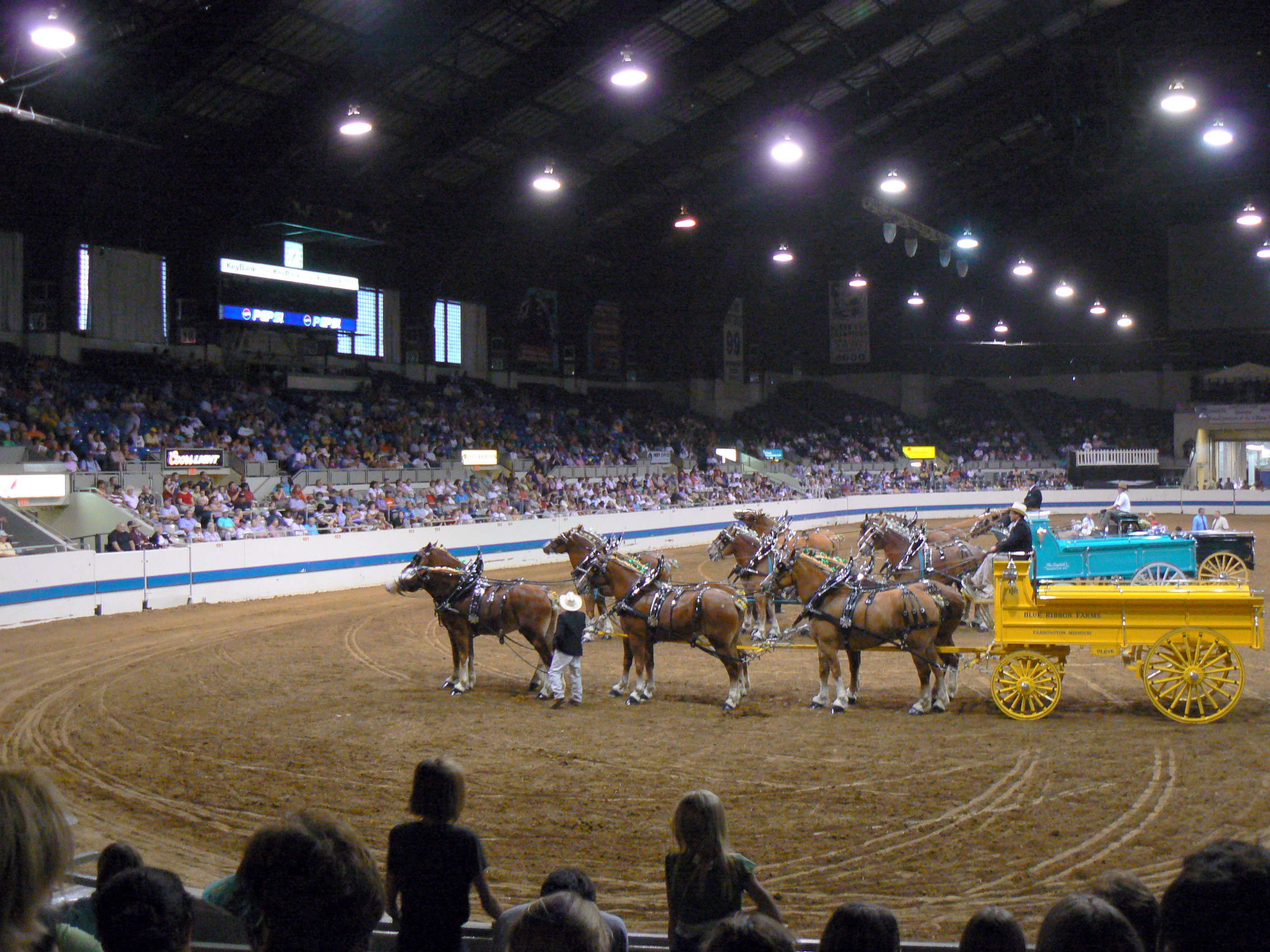 Draft horses lined up in the arena during the Indiana State Fair, 2007.